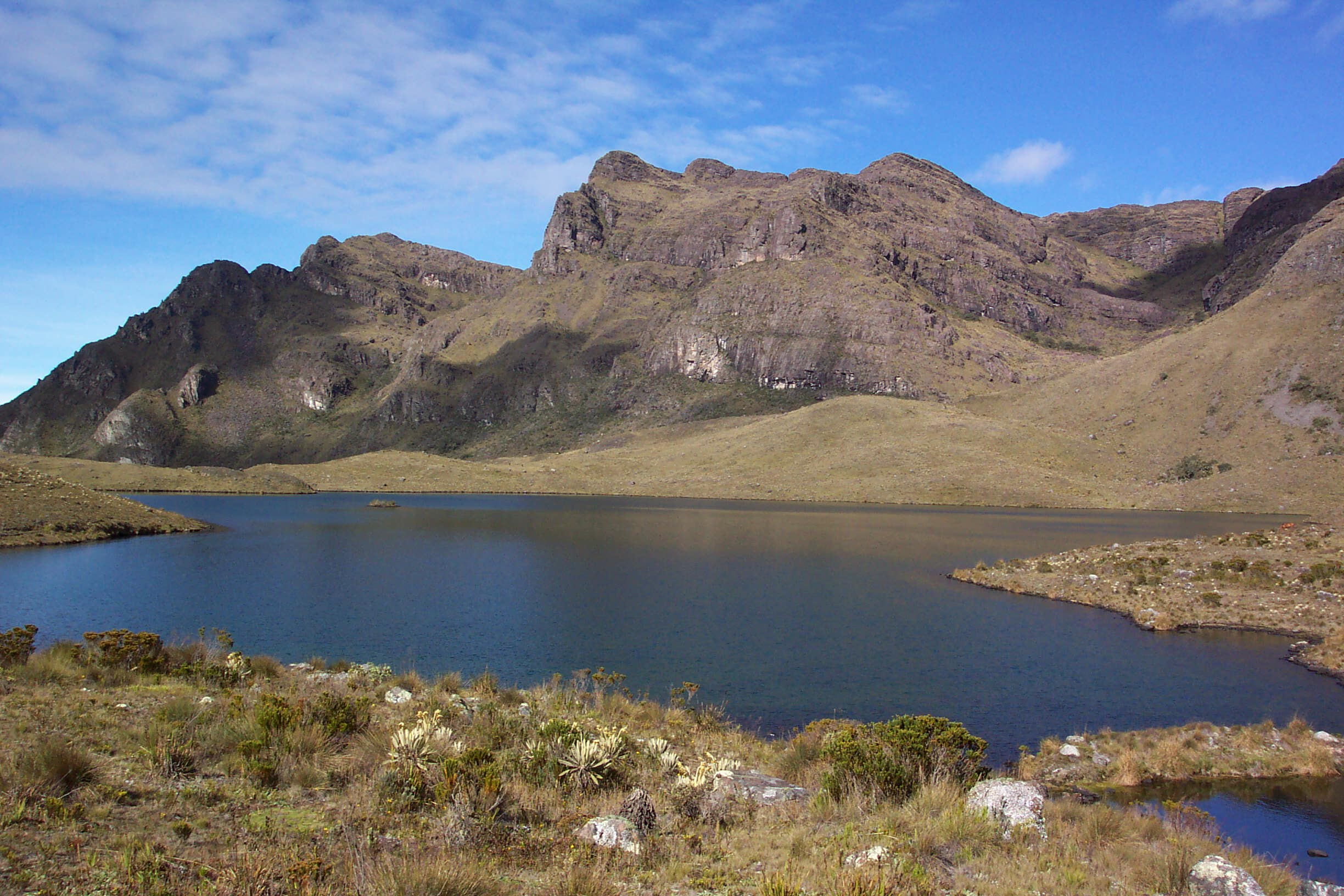 Laguna Brava, Municipio de Arboledas, Paramo de Santurbán